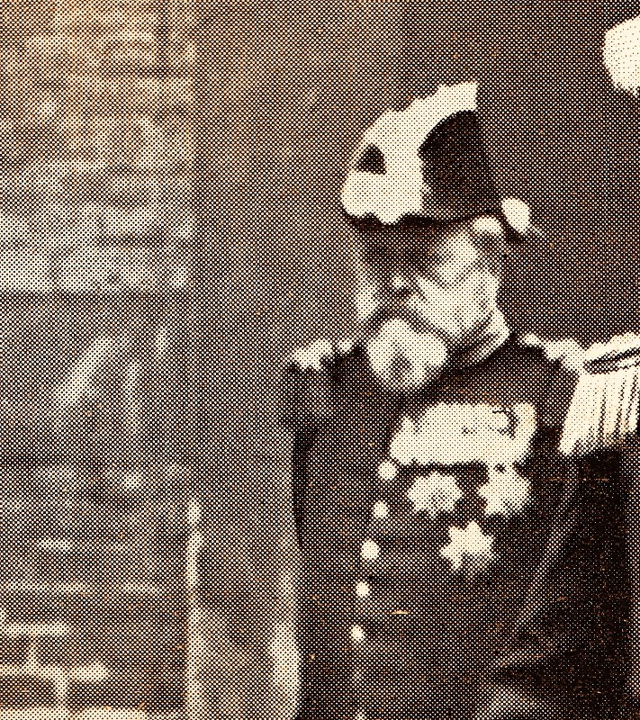 Sirtema van Grovestins